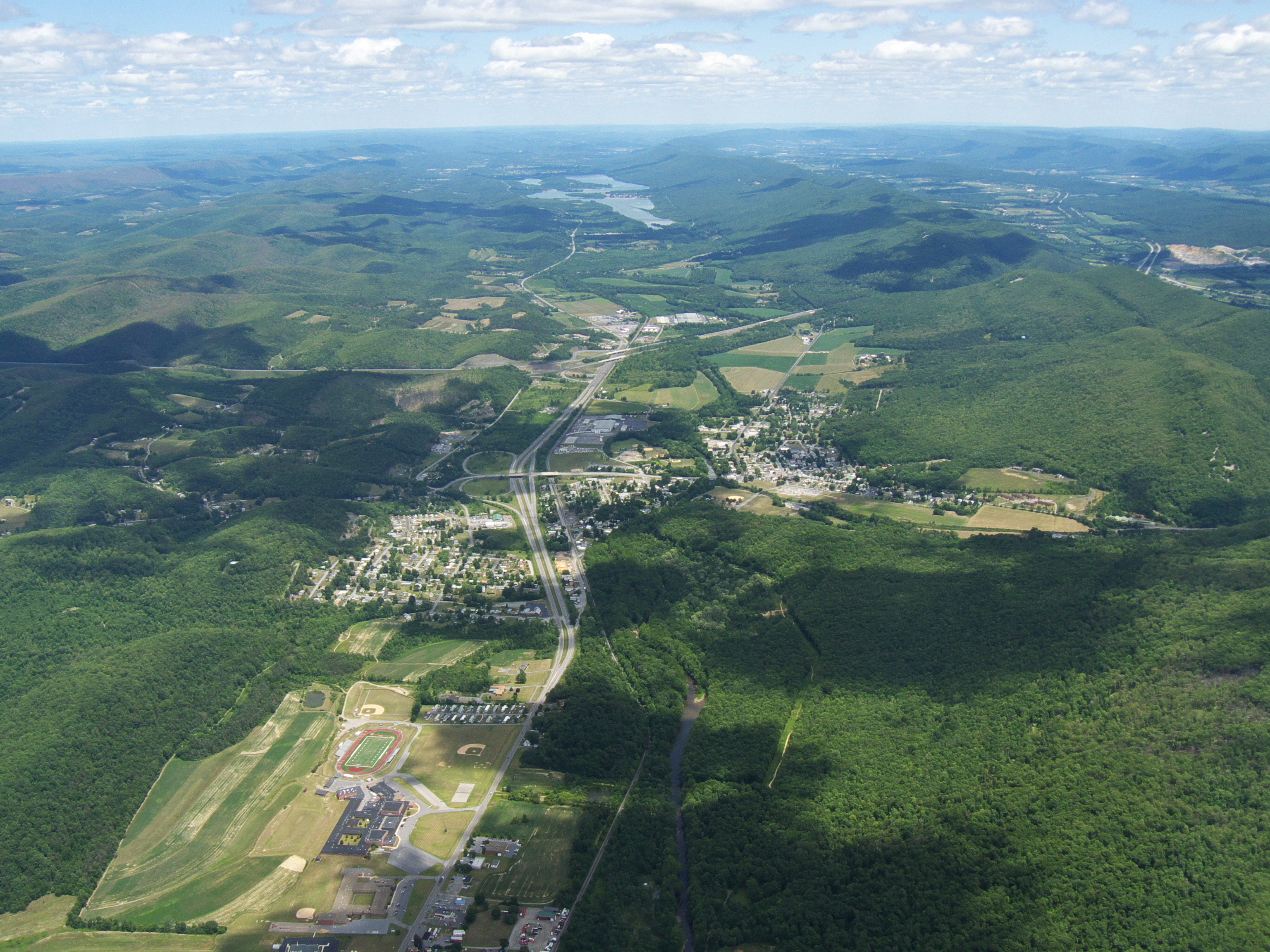 Lower Bald Eagle Valley looking NE from Wingate. Photo taken from a glider in flight on July 7, 2007.